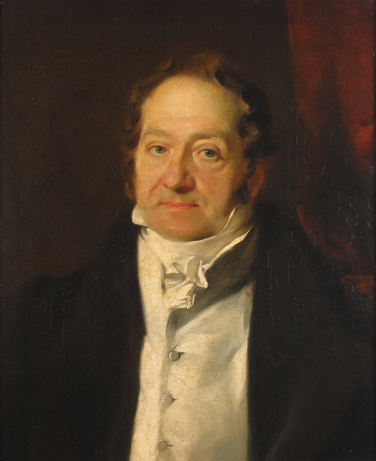 Oil on canvas painting of James Stuart by Daniel Macnee